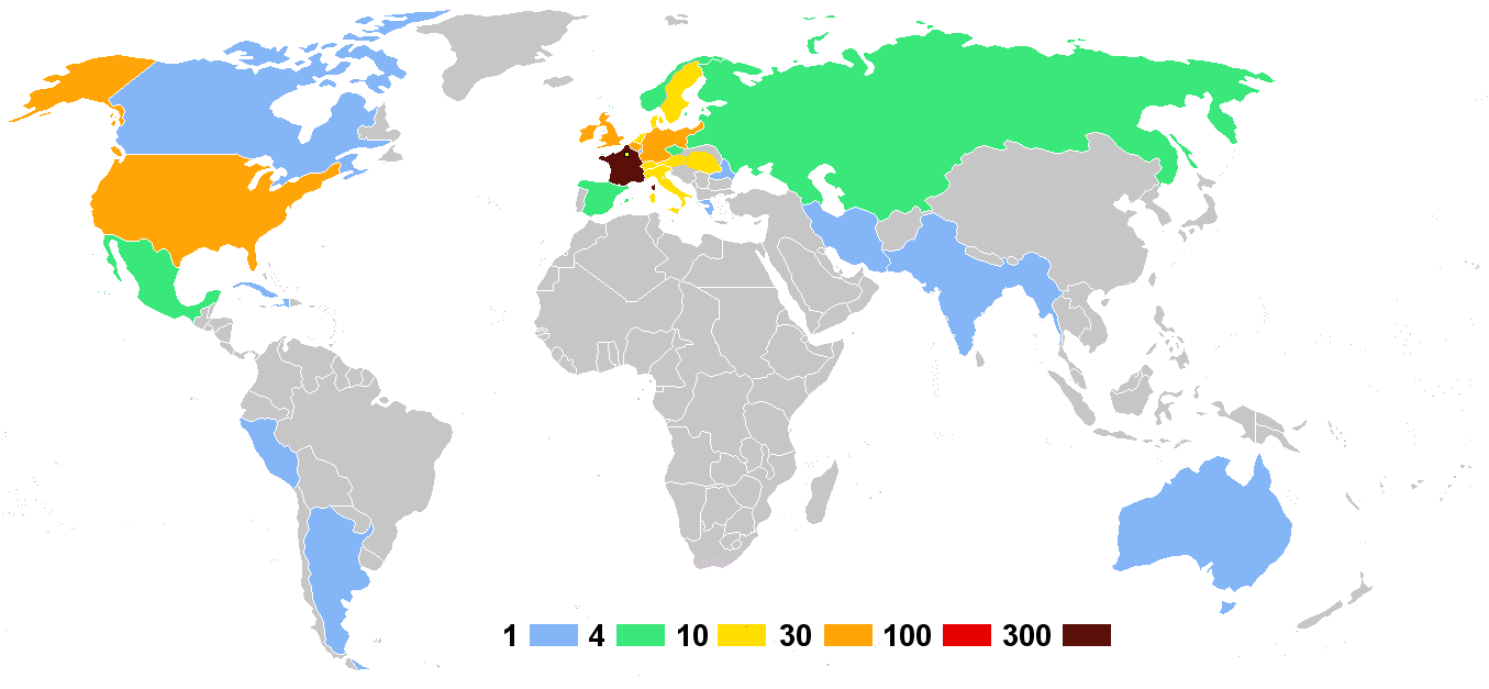 1900 Summer Olympics - Number of athletes